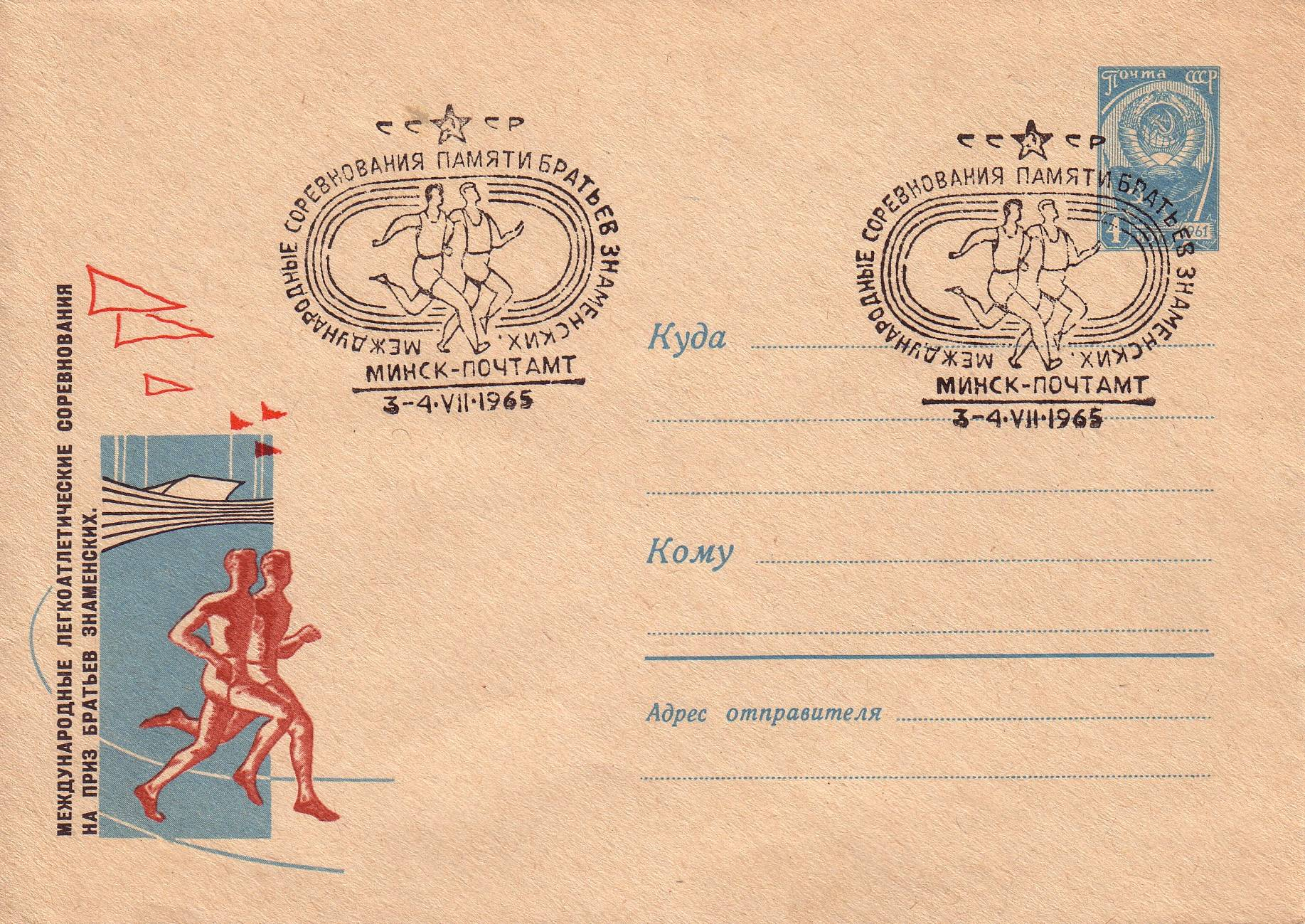 Soviet Union - Znamensky Memorial 1965. Soviet envelope to commemorate the Znamensky Memorial Games of July 1965. An international athletics competition named in honour of the great Soviet athletes, brothers George & Seraphim Znamensky. Postmarked Minsk.